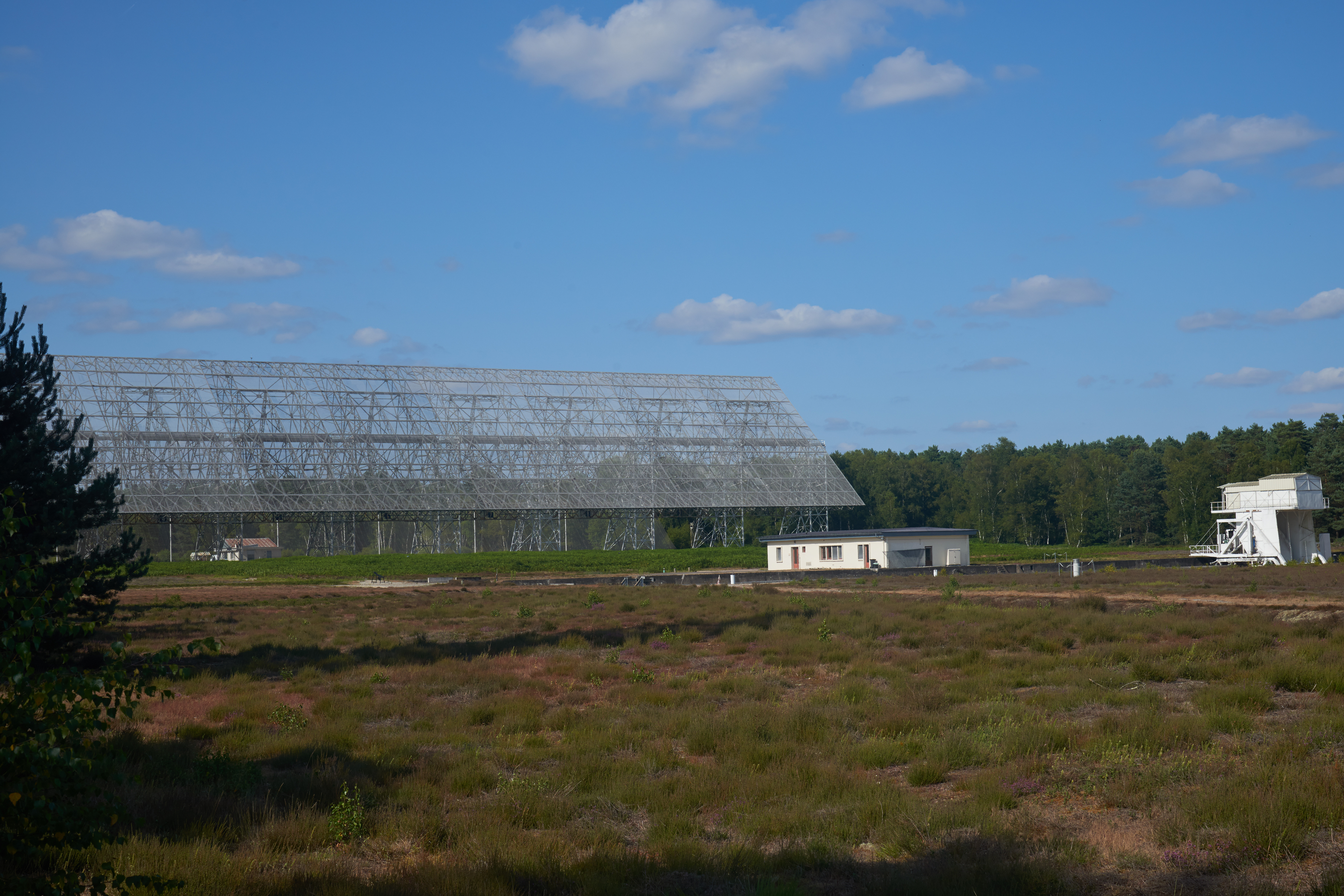 Nançay Observatory